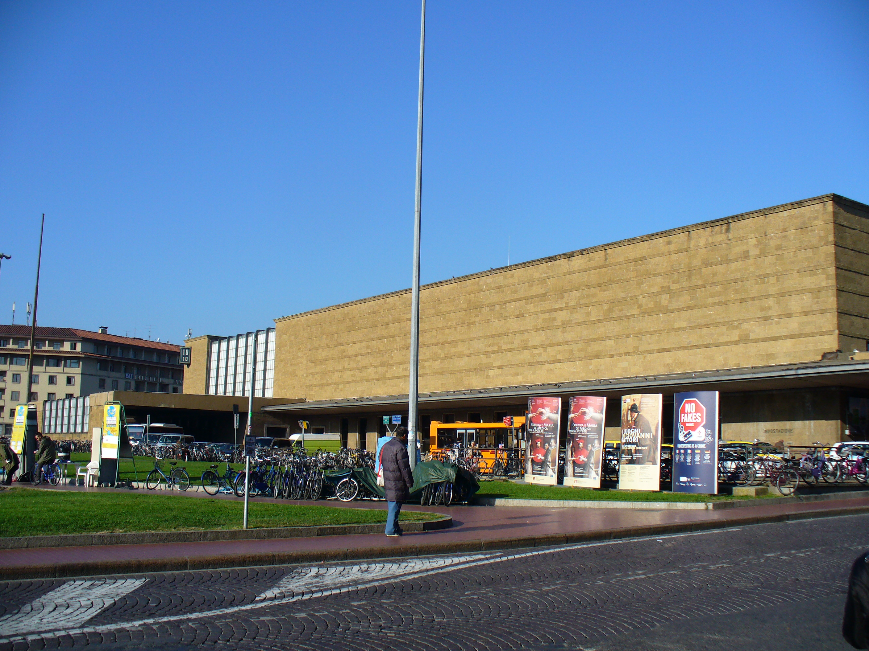 Exterior of Firenze Santa Maria Novella railway station